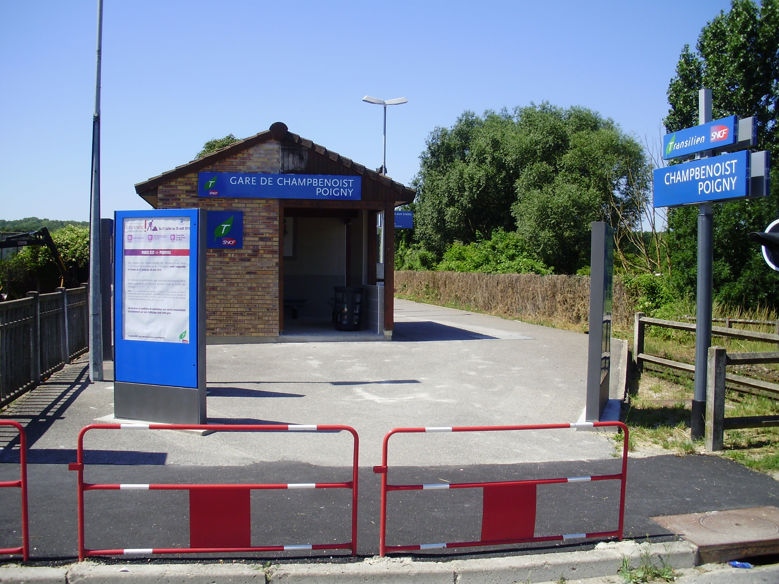 Champbenoist - Poigny station, in Poigny, Seine-et-Marne, France (direct entrance on the platform)